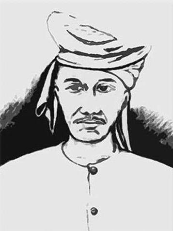 Nuku Muhammad Amiruddin (1738–1805), also known as Prince Nuku or Sultan Nuku, was a sultan of Tidore. He is also a National Hero of Indonesia.